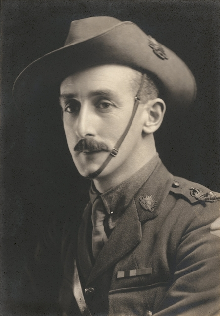 Lieutenant Colonel (later Lieutenant General) John Lawrence Whitham of the Australian Imperial Force in circa 1919